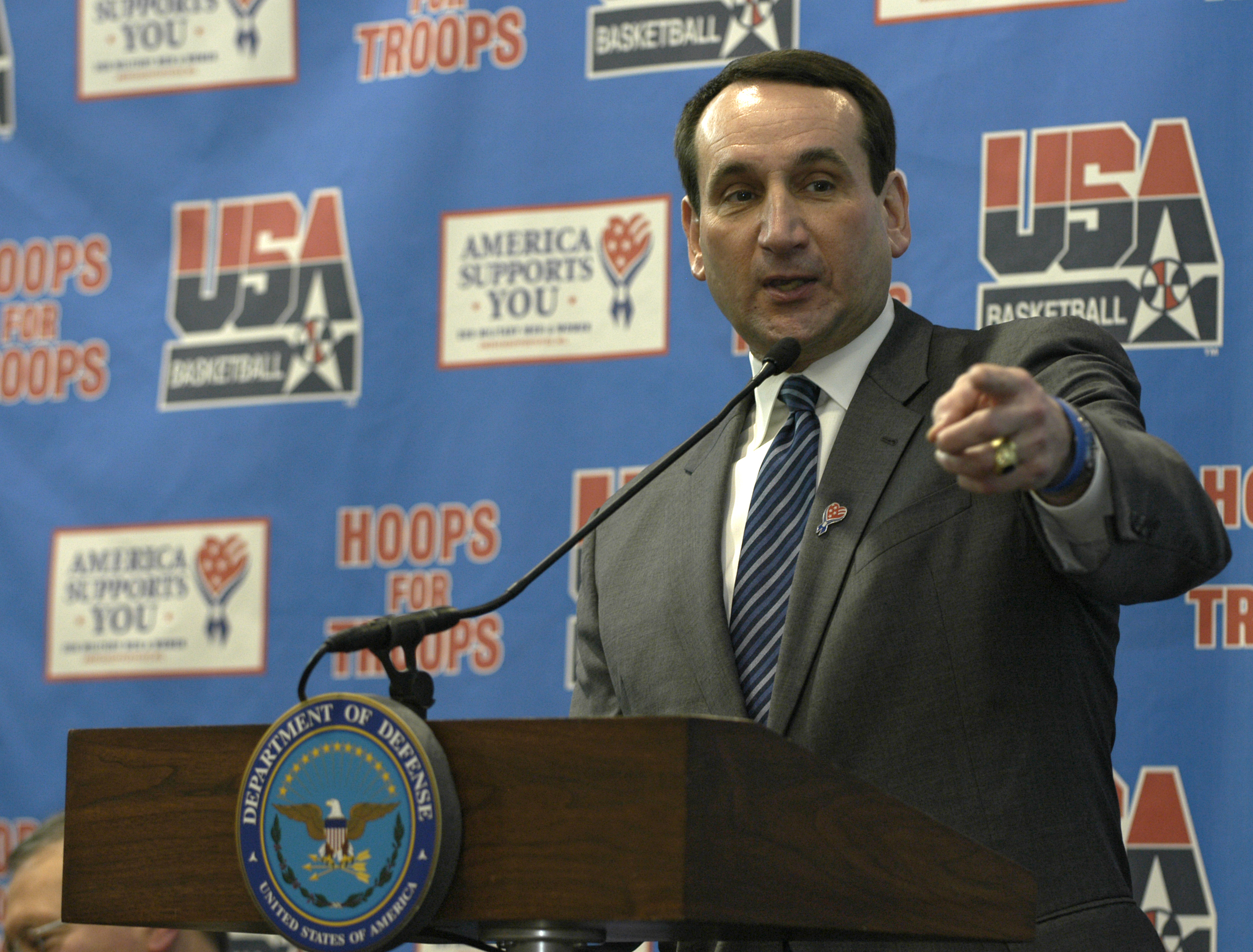 Mike Krzyzewski, USA Basketball National Team head coach, speaks to servicemembers’ children at the Pentagon Athletic Center during the "Hoops for Troops" program April 6, 2006. USA Basketball joined the America Supports You program and held the basketball clinic at the military headquarters.